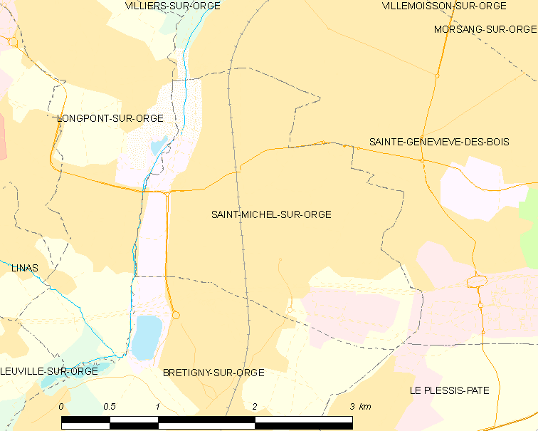 Map of French municipality Saint-Michel-sur-Orge